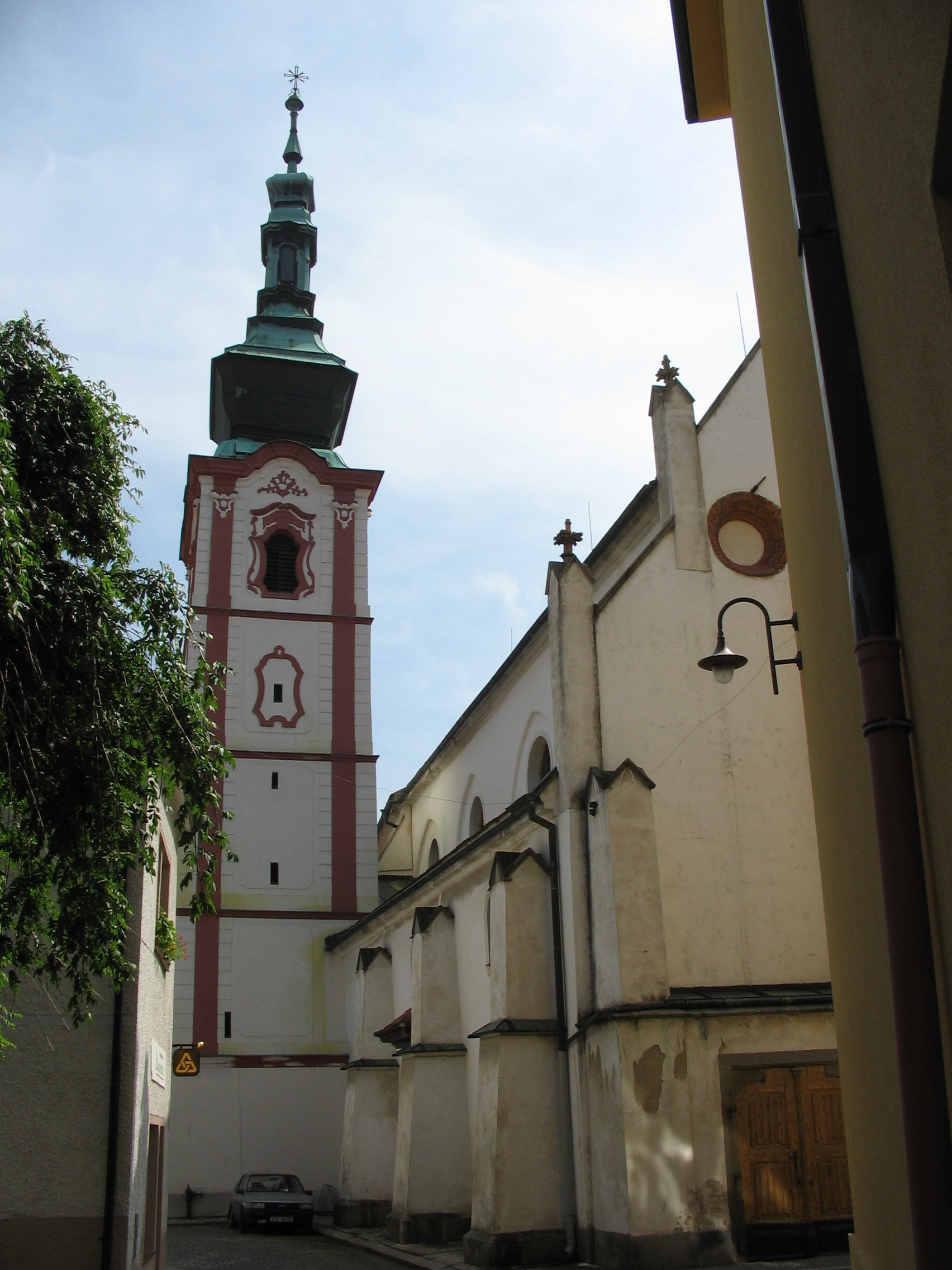 Saint Wenceslaus church in Sušice, Plzeň Region, Czech Republic